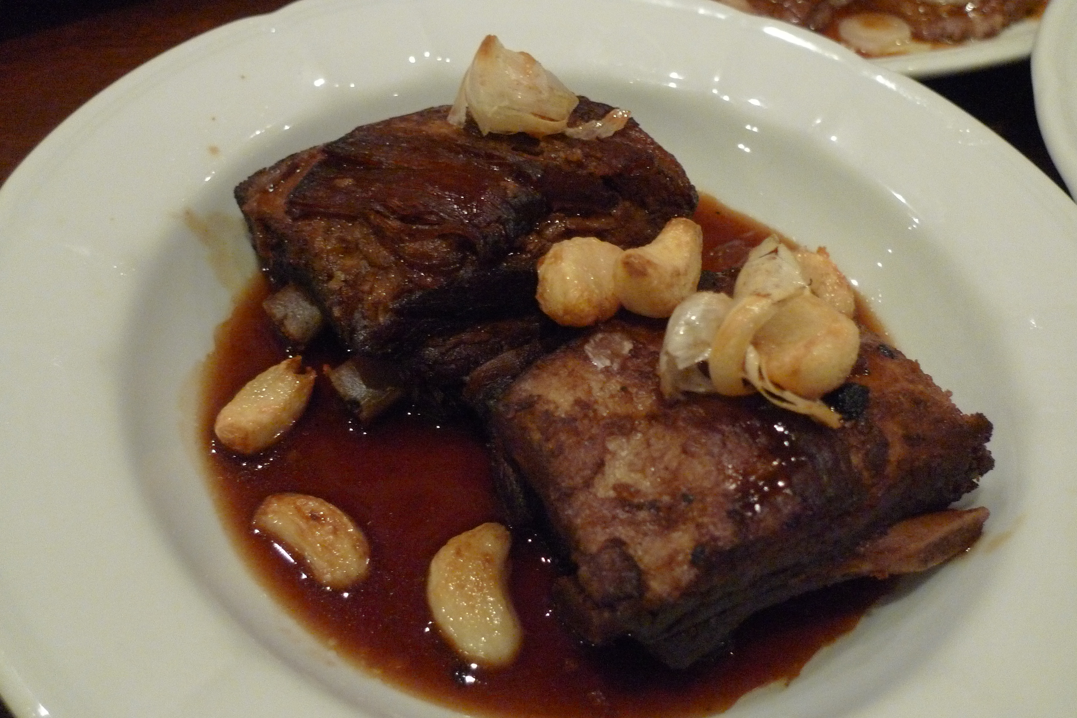 Fely J's Adobo